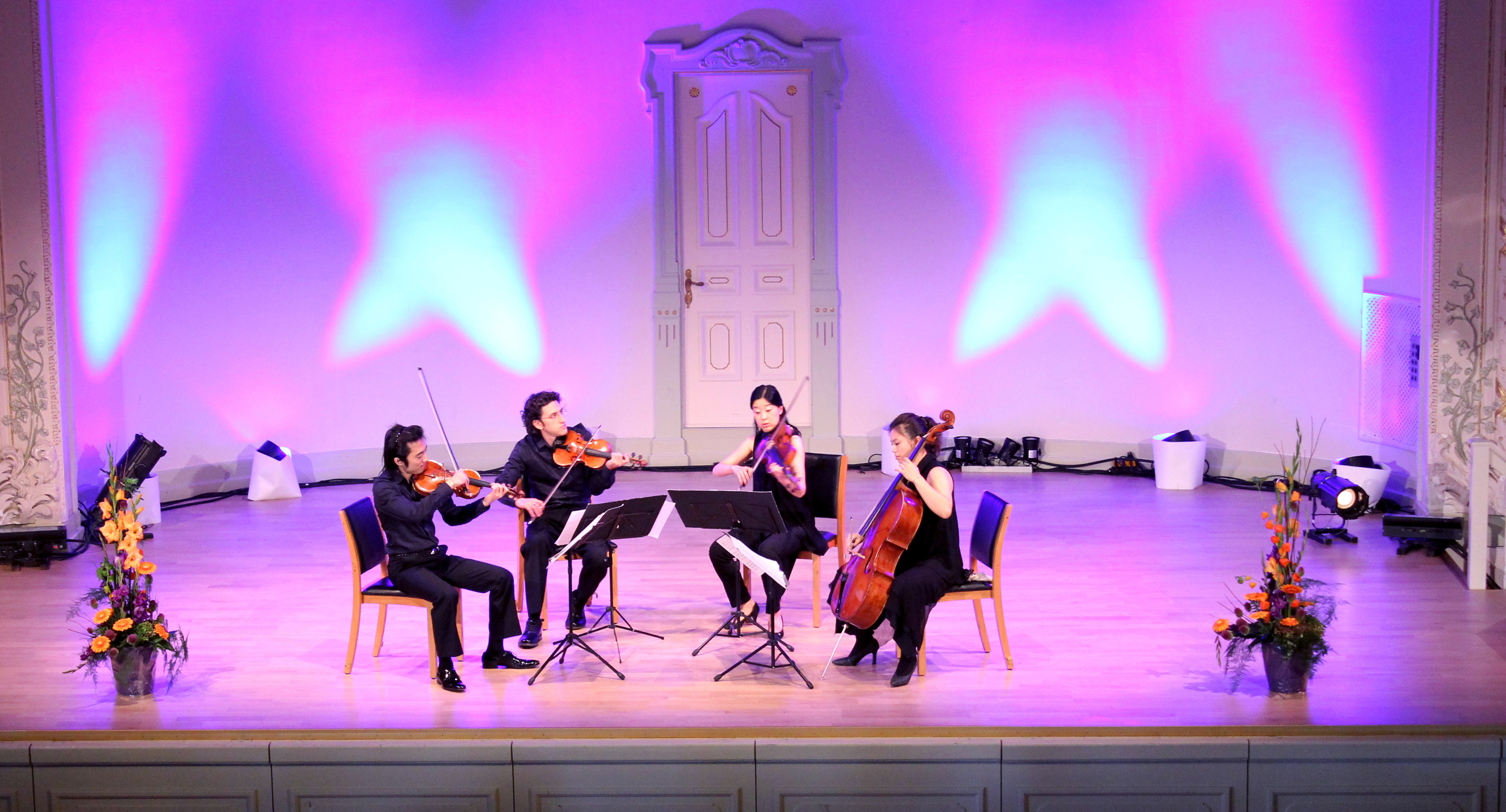 Quartet Berlin-Tokyo playing in the competition TICC 2013, Trondheim Chamber Music Festival (Kamfest) 2013